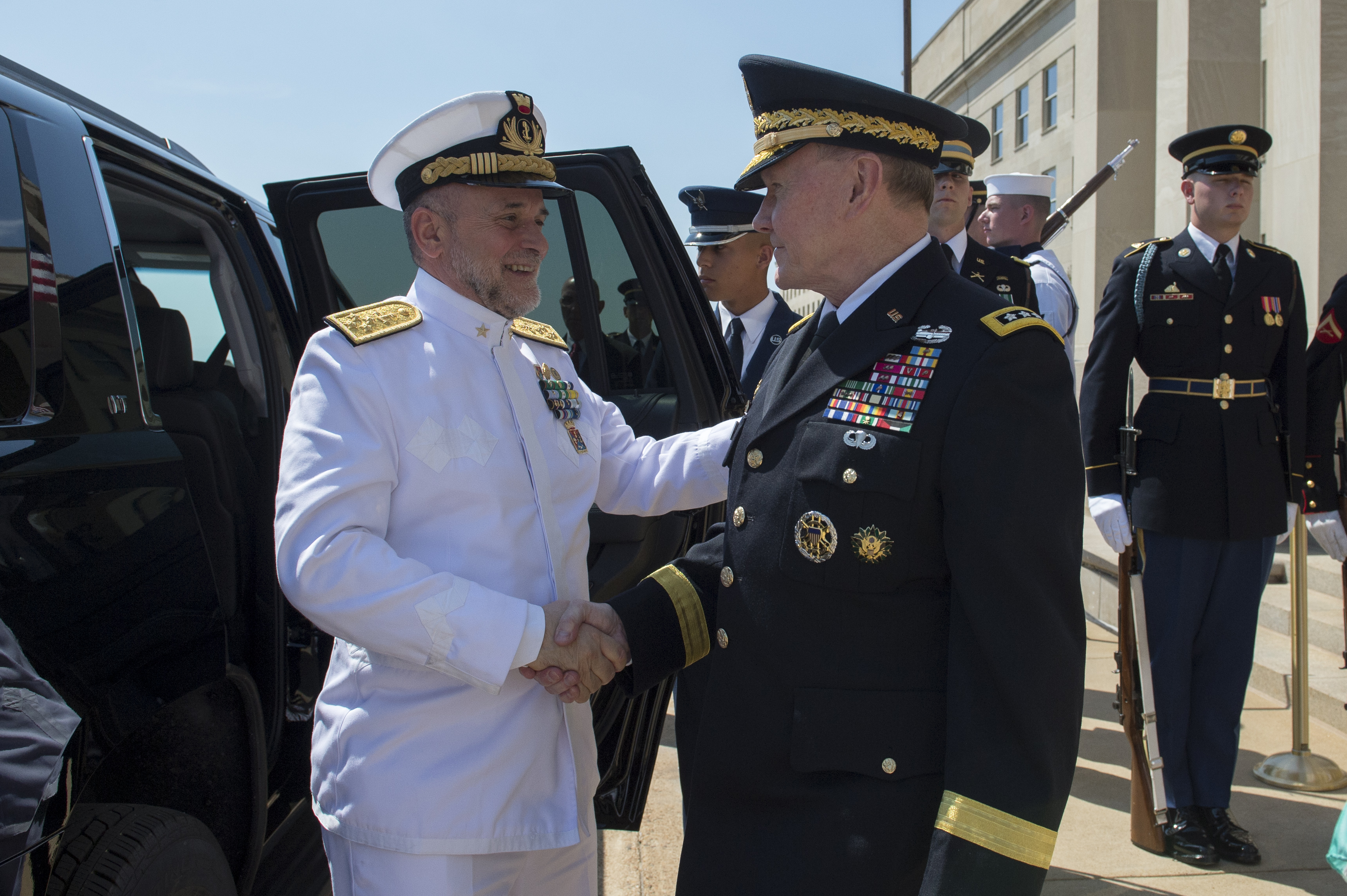 18th Chairman of the Joint Chiefs of Staff Army Gen. Martin E. Dempsey greets Italian Chief of Defense Staff Adm. Luigi Binelli Mantelli in front of the Pentagon June 24, 2014. DoD photo by Mass Communication Specialist 1st Class Daniel Hinton